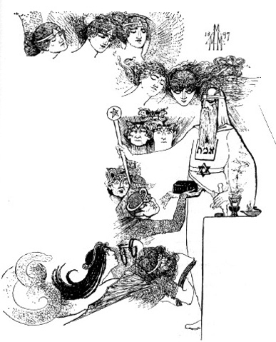 Drawing from the "Abramlin the Mage" book by Moina Mathers which fell into the public domain. Author and artists did not die over one hundred years ago but the book is known to be in the public domain.